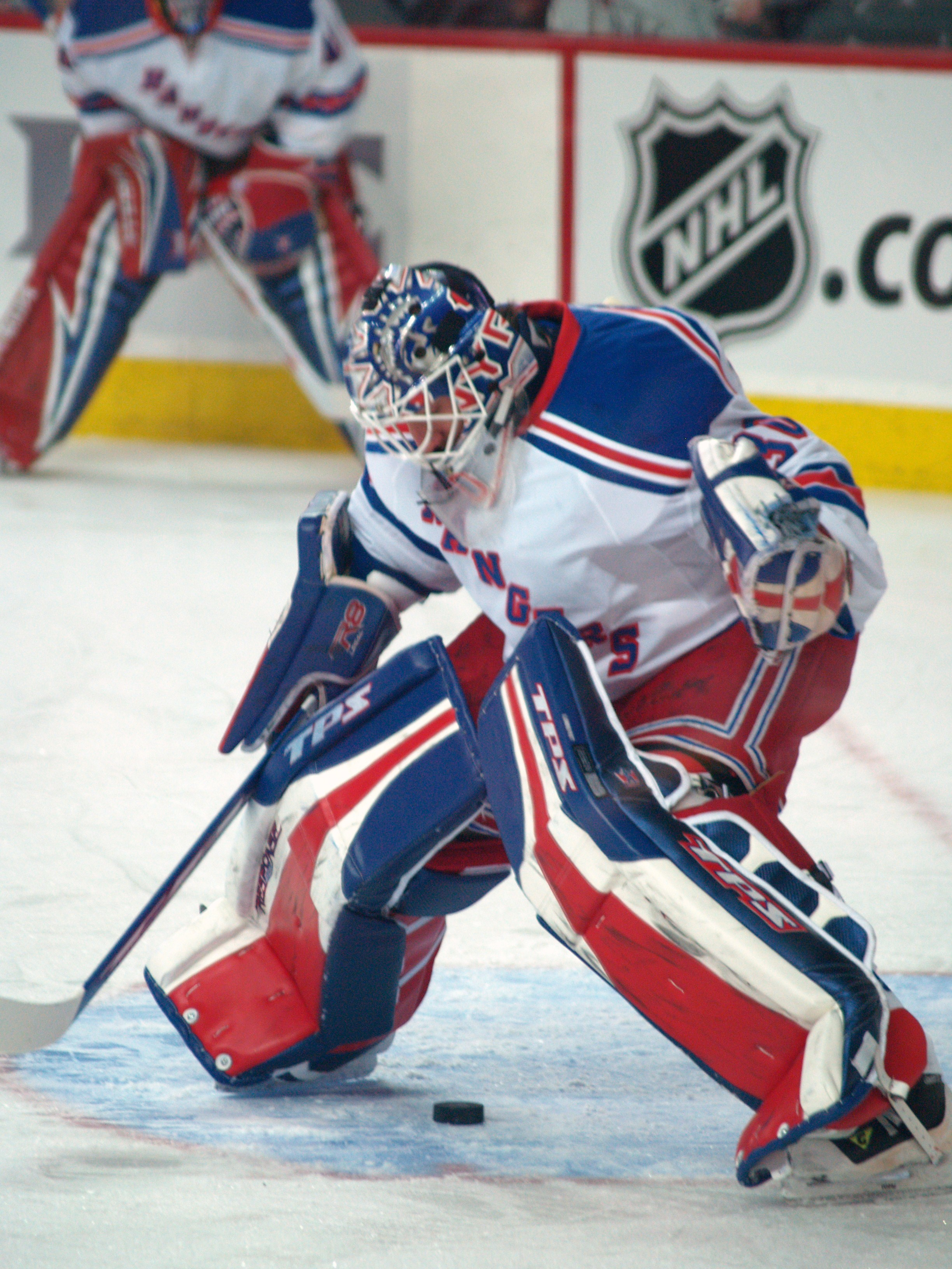 Henrik Lundqvist of the New York Rangers during a pre-game warmup in Calgary